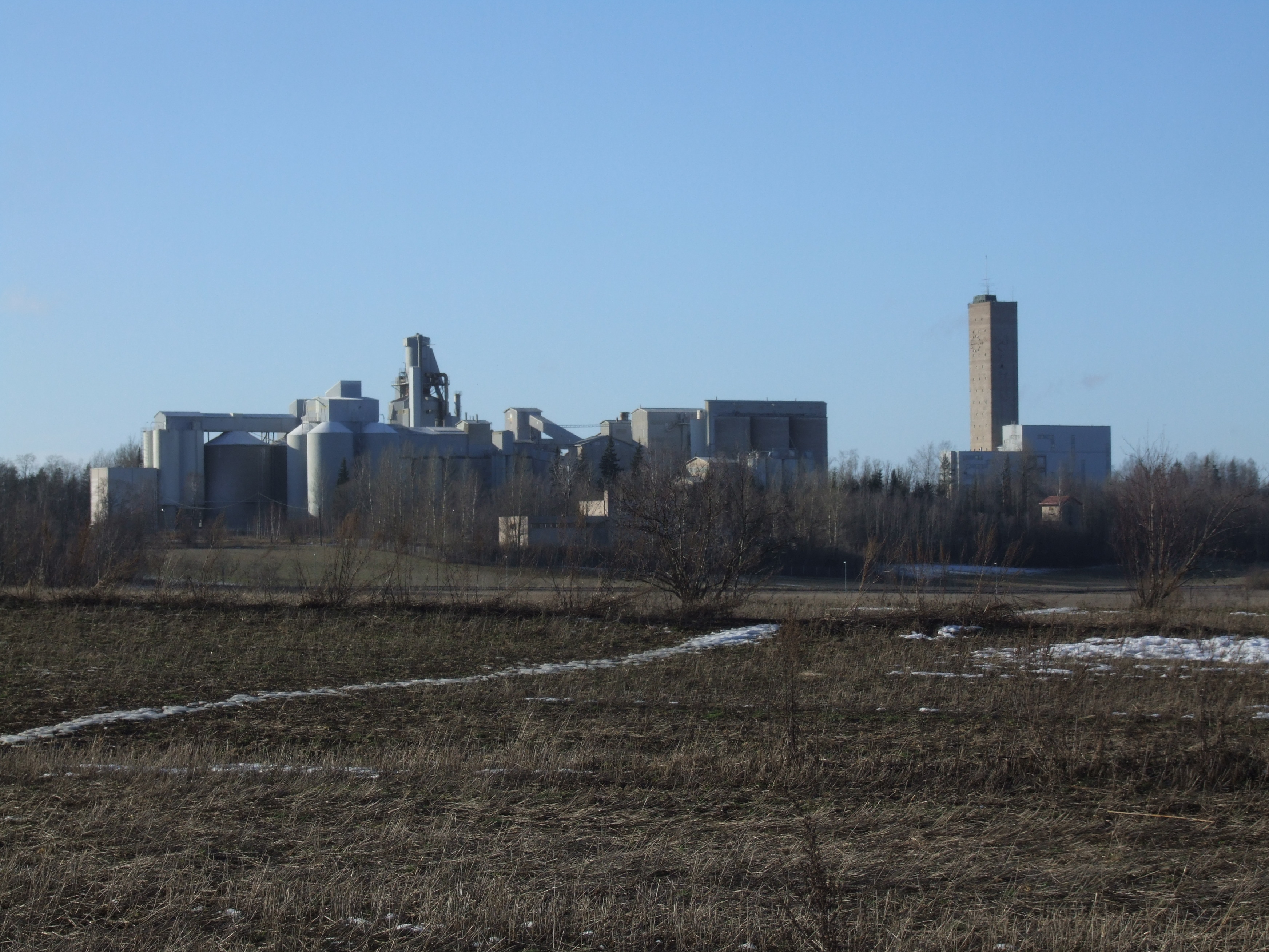 Tytyri limestone mine and factory in Lohja, Finland